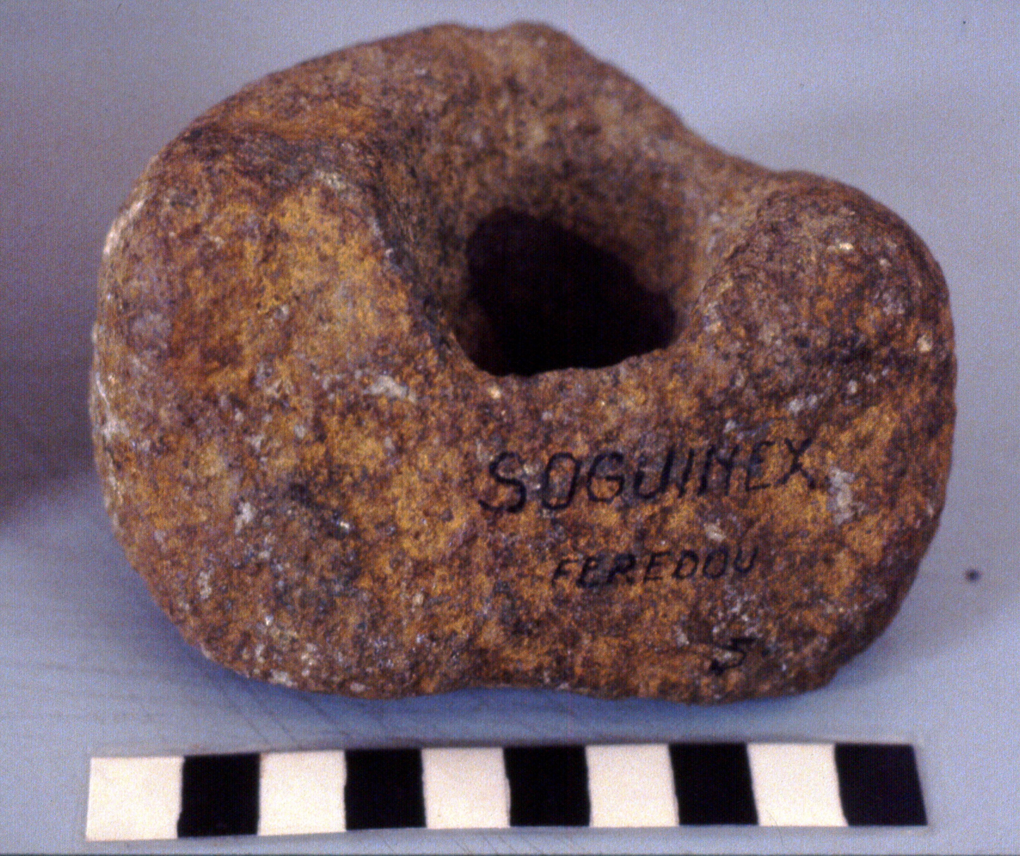 Bored stone from Guinée (west Africa) - Scale in centimetres. Photographed January 16, 1982 in the IFAN Museum, Dakar, Sénégal. From ethnographic analogy, this was probably used as a digging stick weight, possibly in agriculture or mining activities.